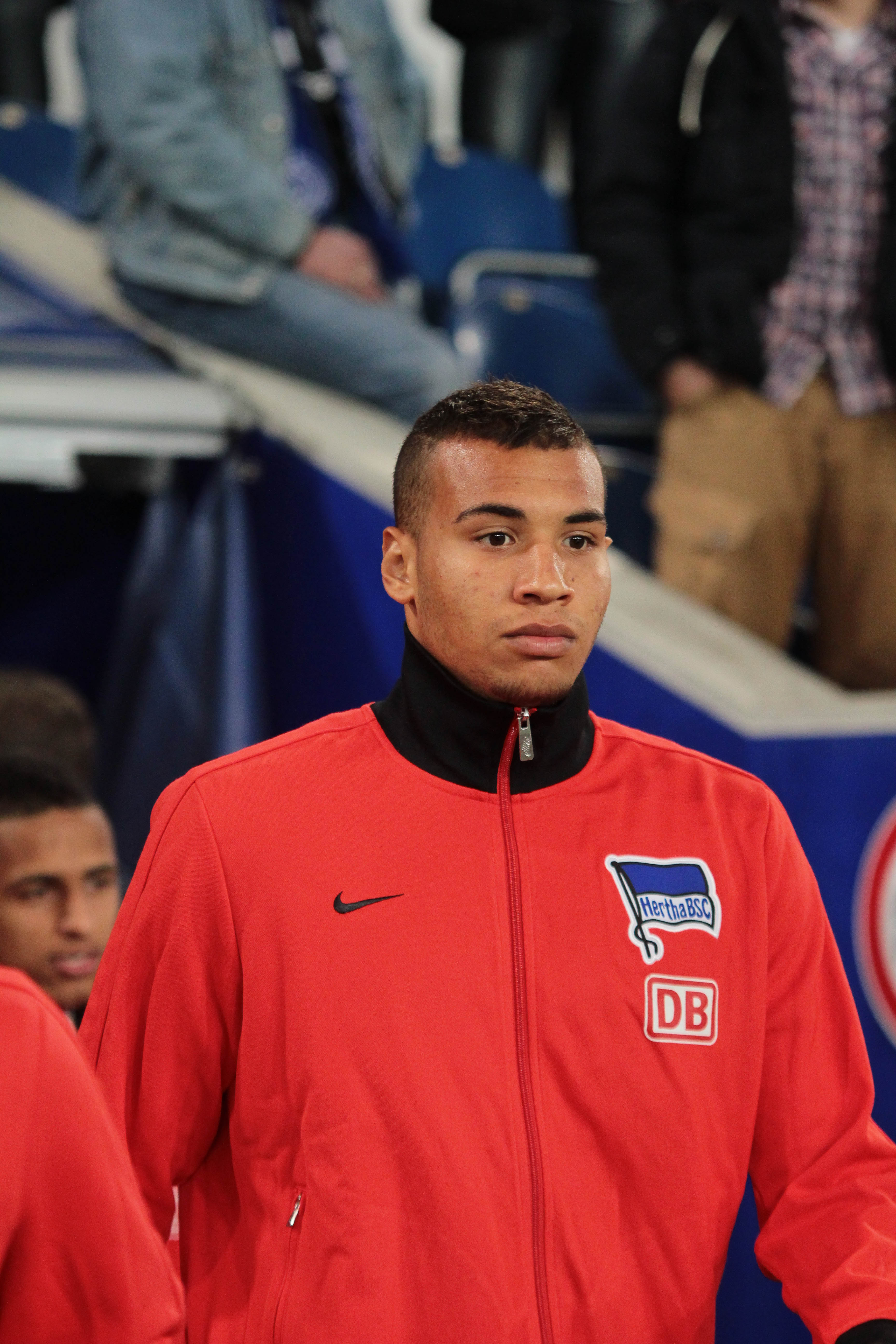 German-American footballer John Anthony Brooks, Hertha BSC